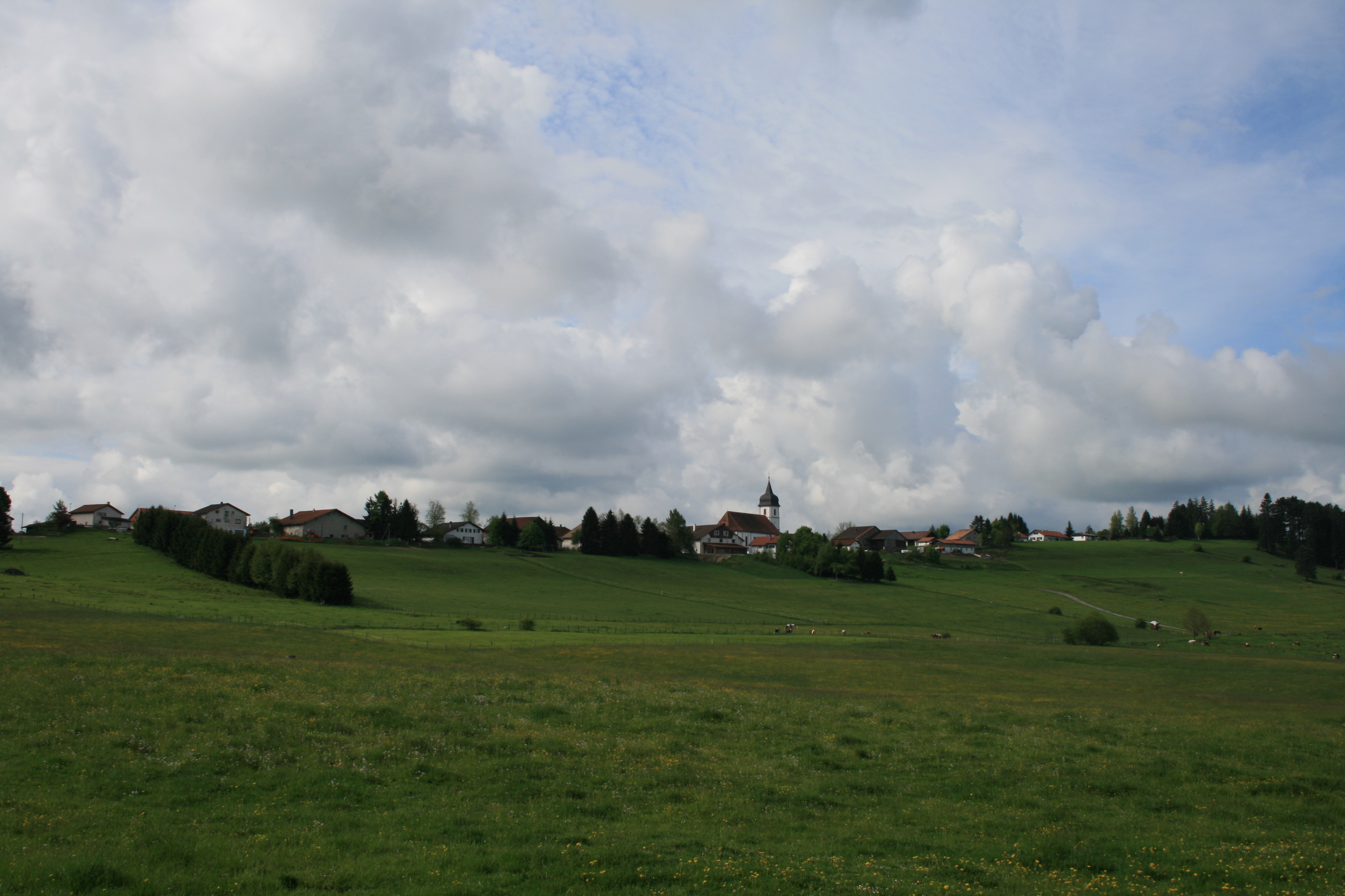 The village of Montfaucon JU, Switzerland